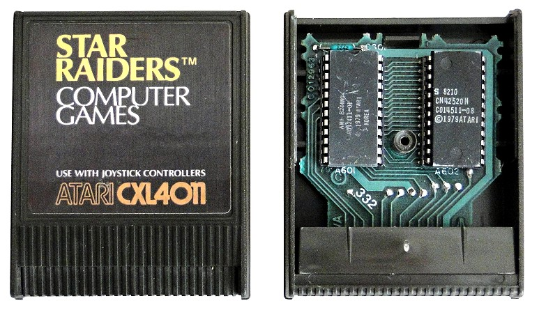 Atari 8-Bit game Star Raiders, Cartridge (case and open case with pcb)